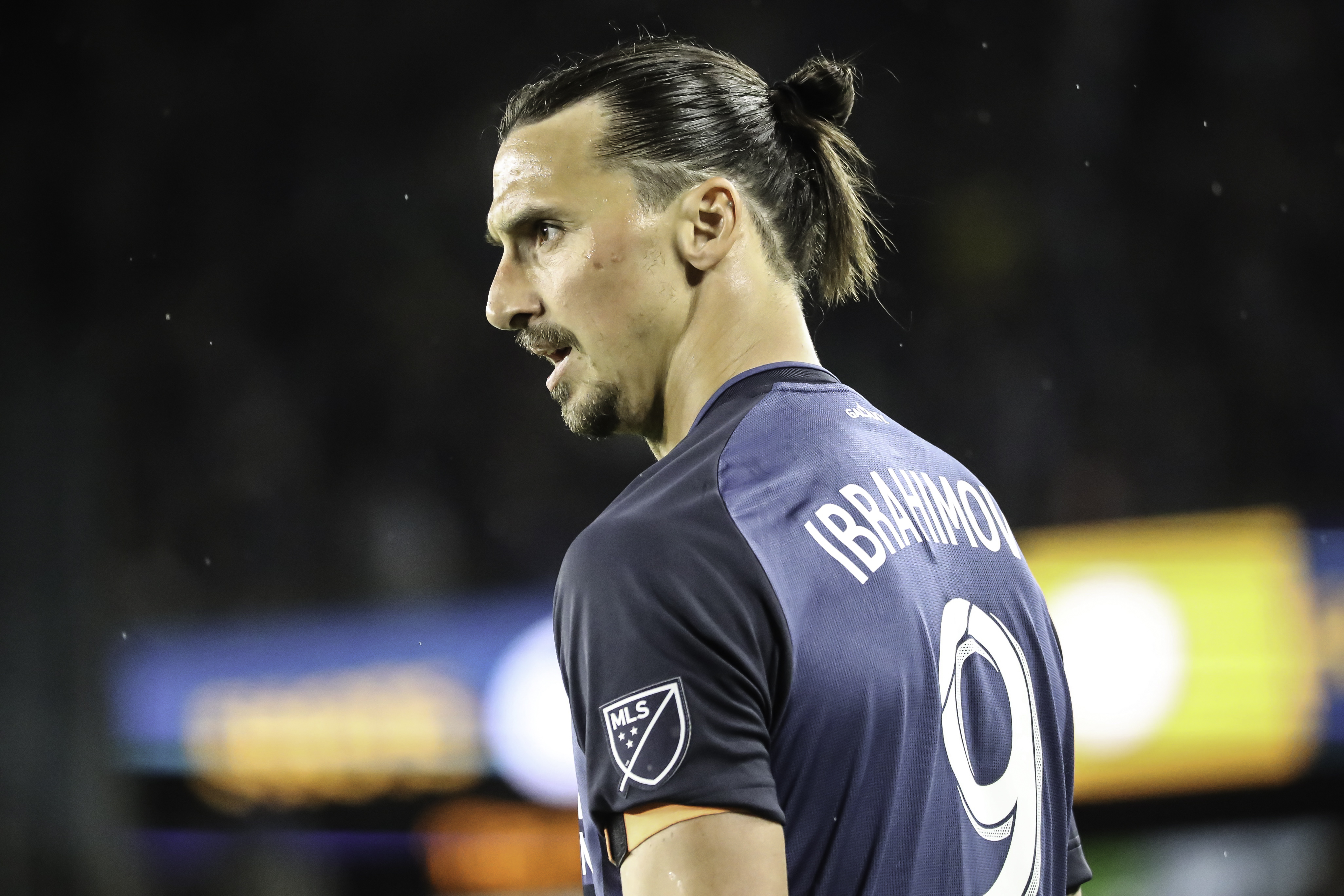 Zlatan Ibrahimovic LA Galaxy MLS Soccer